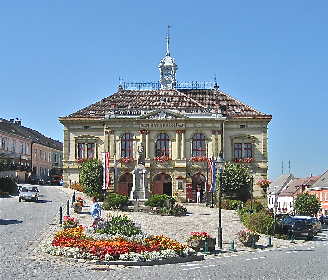 Rathaus Weitra, Weitra is a walled town with a castle on the Austrian/Czech border, established by Hadmar II of Kuenring in 1201. It was seized by the Hussites as well as by Hungarian troops under Matthias Corvinus in 1486. The castle was attacked by Swedish forces in 1645.